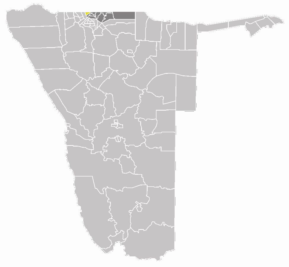 map of the Ongenga constituency within the Ohangwena region, Namibia